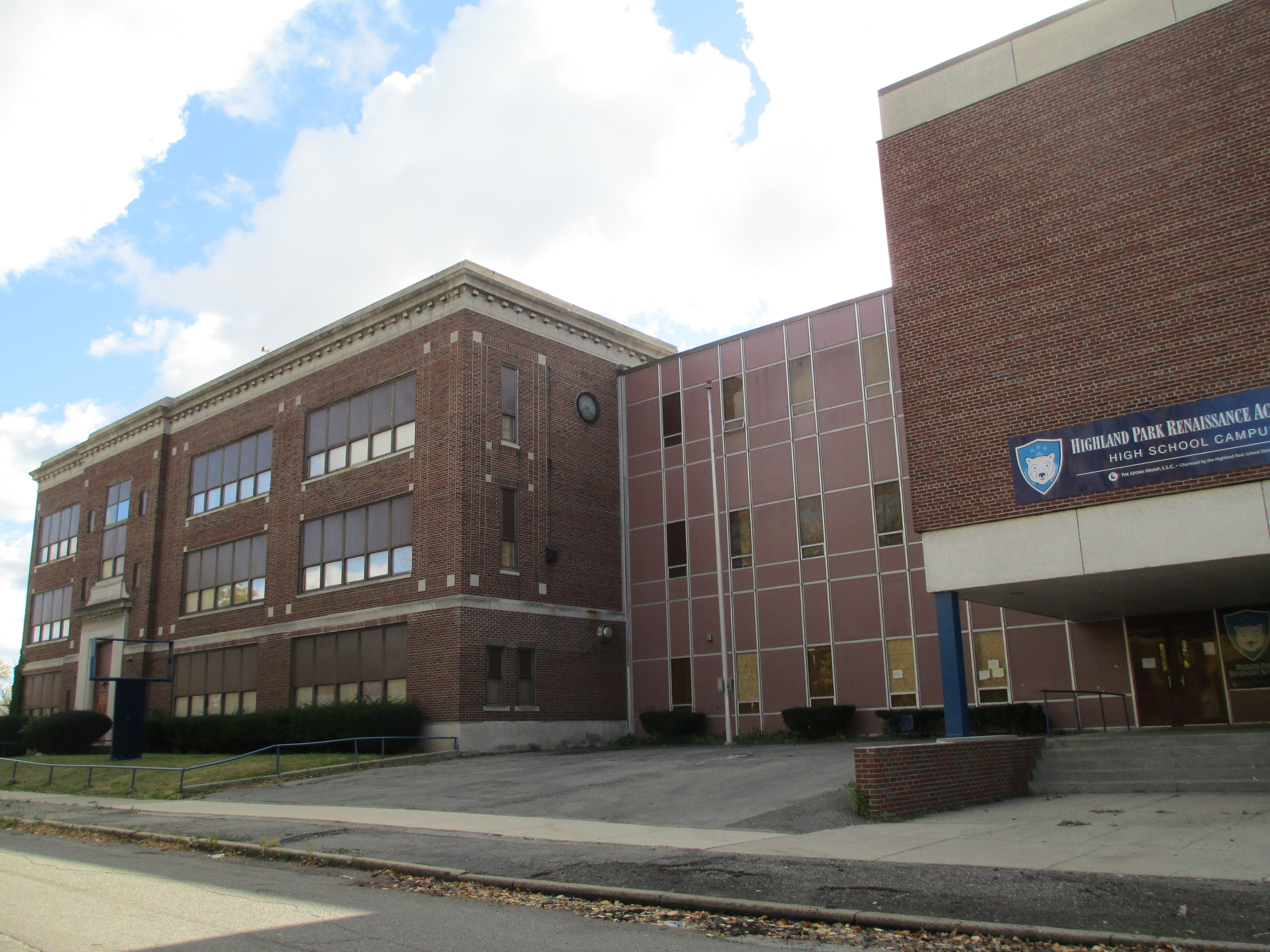 Looking right to left at the front of the then-Highland Park Schools headquarters. 131 Pilgrim Street, Highland Park, MI 48203